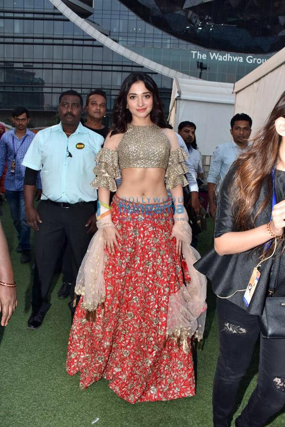 Actress Tamannaah at the red carpet of the Lakme Fashion Week 2018